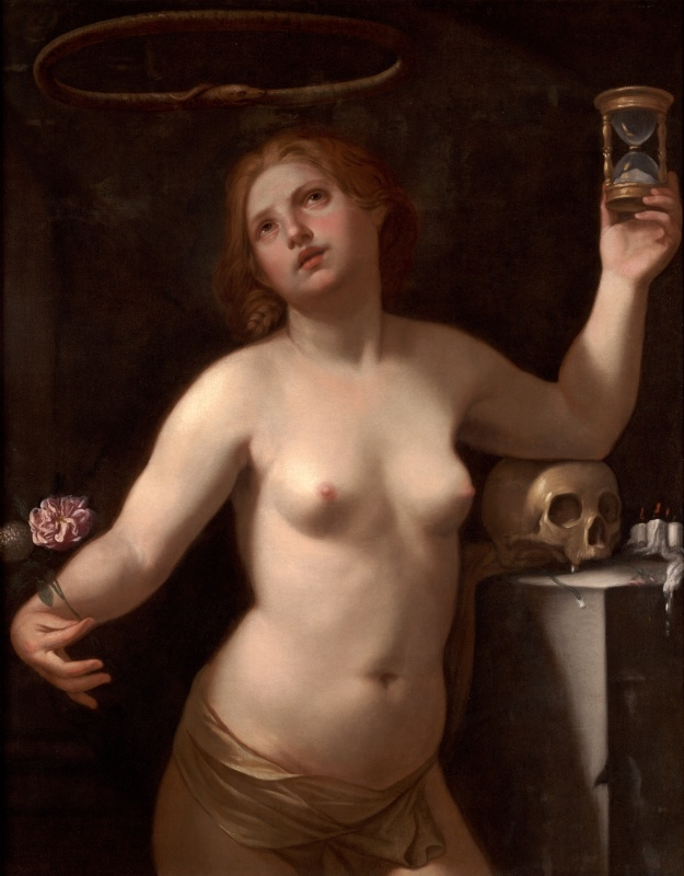 Allegory of Life attributed to Guido Cagnacci, oil on canvas, 41½ x 32 7/8 in. (105.41 cm x 83.5 cm), Crocker Art Museum